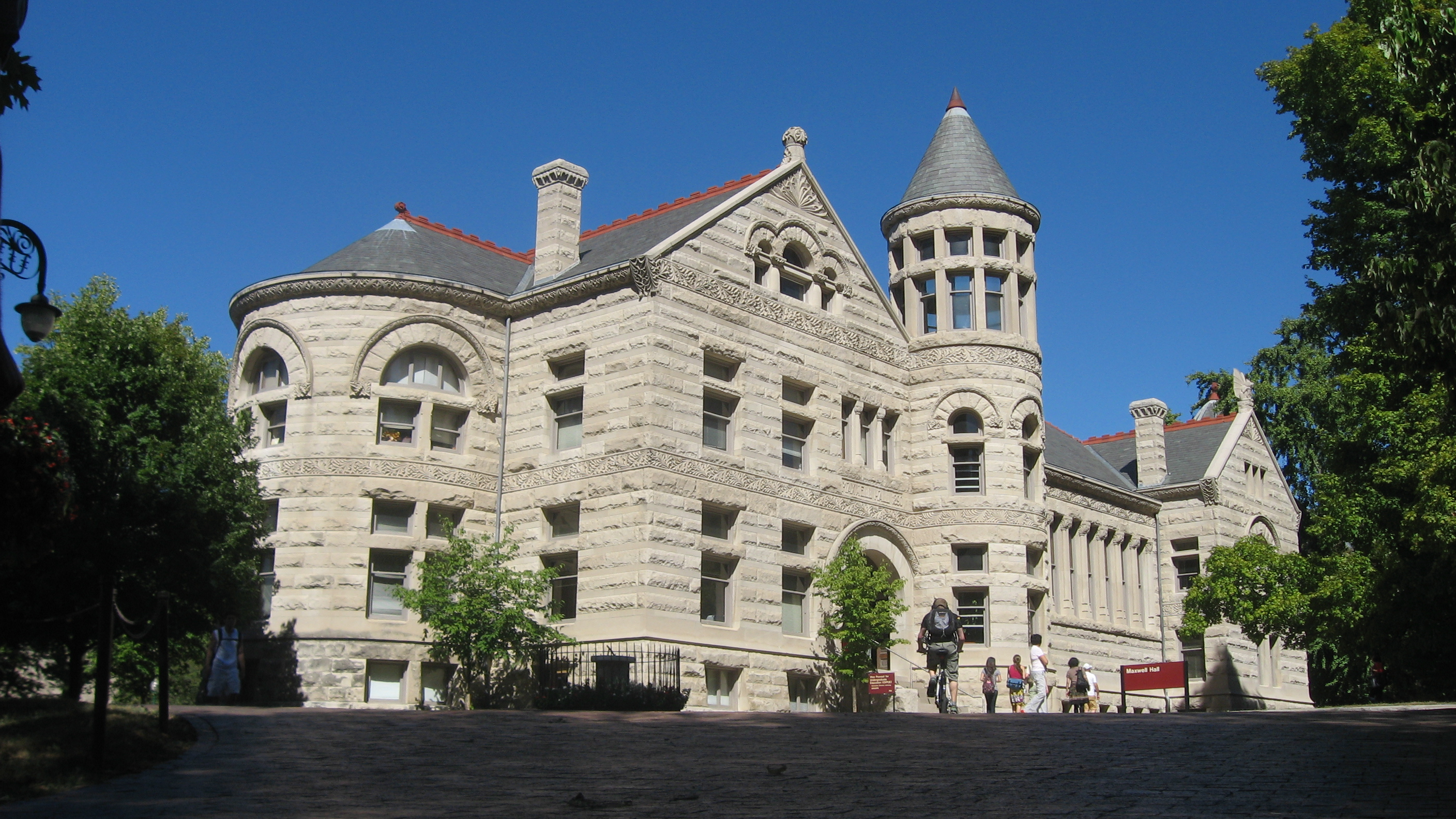 Front and western side of Maxwell Hall on the campus of Indiana University in Bloomington, Indiana, United States. Built in 1890, it is part of The Old Crescent, a group of the oldest buildings on the university's campus that is listed on the National Register of Historic Places.